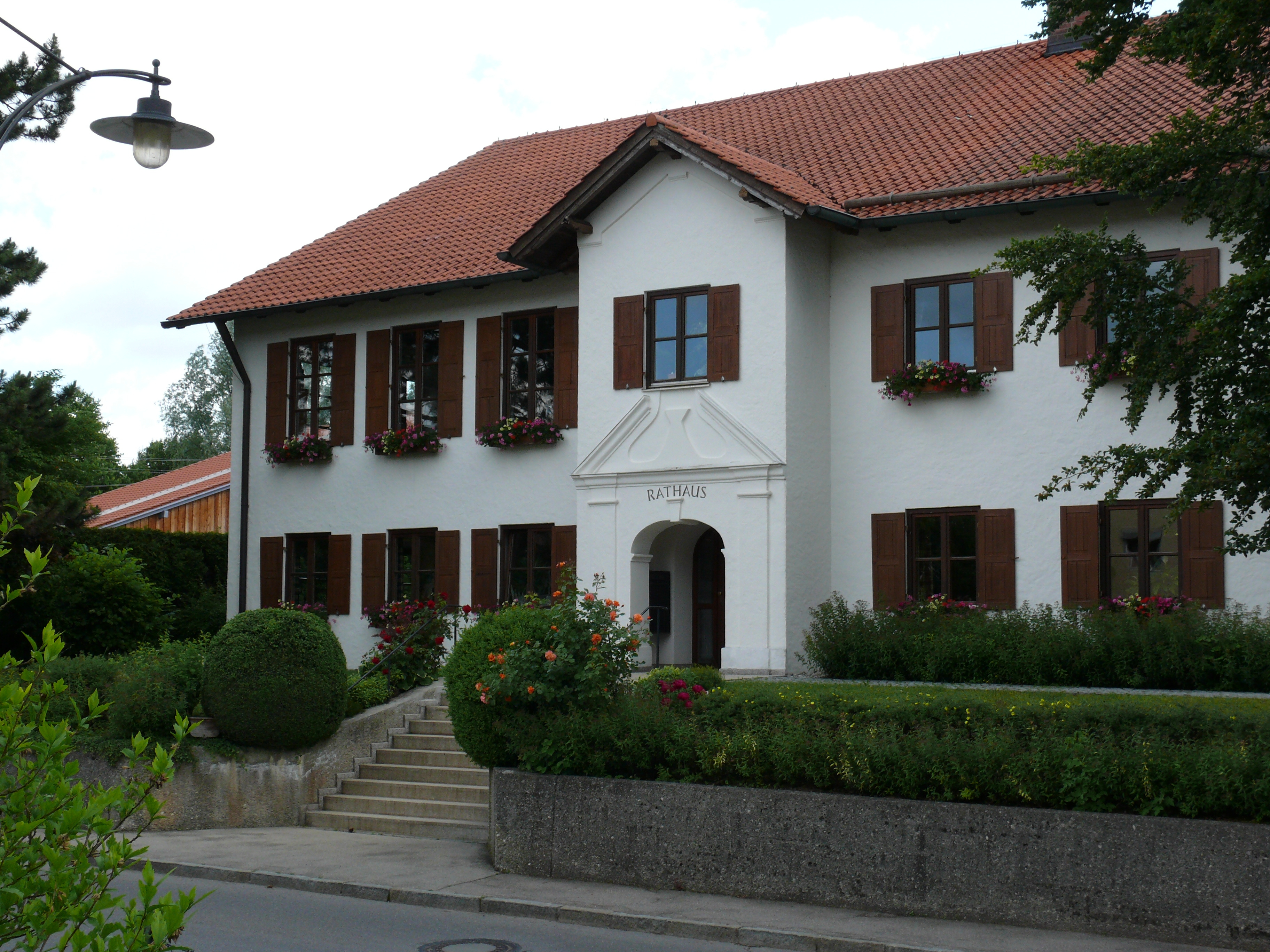 Townhall of Andechs in Bavaria